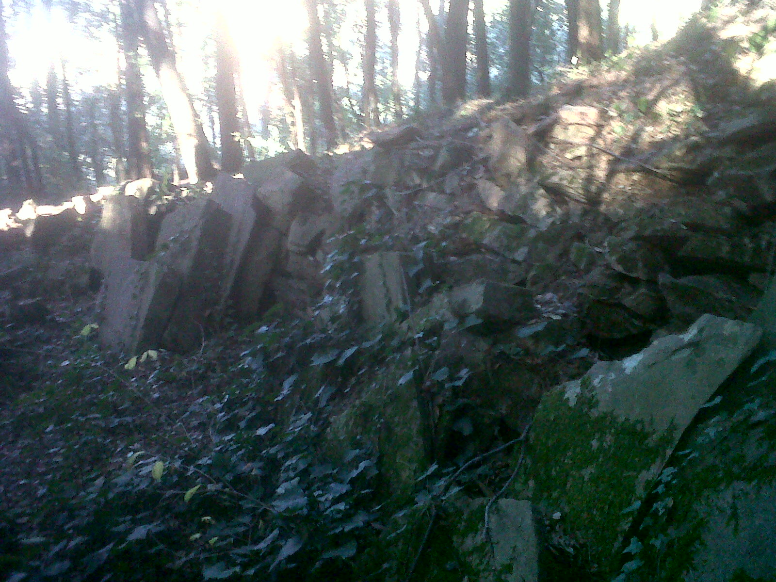 Old White Quarry of La Casa Nova. Tagamanent (Catalonia)